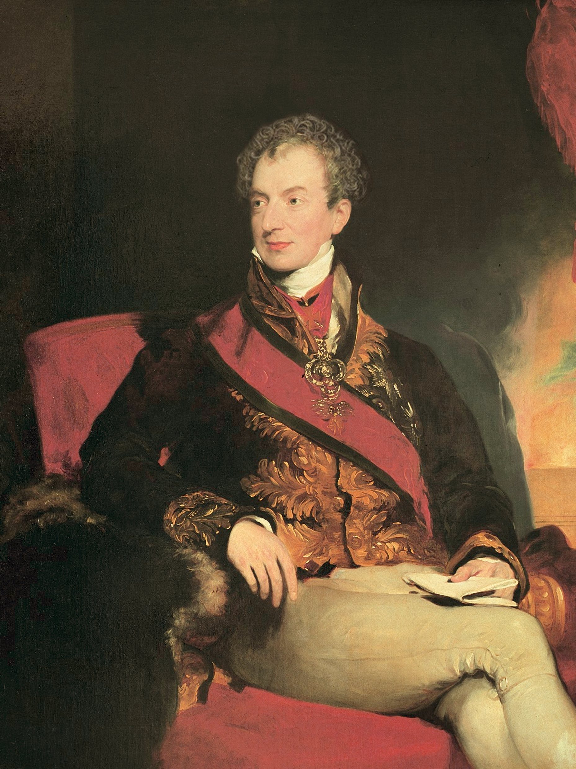 Klemens Wenzel von Metternich (1773-1859), German-Austrian diplomat, politician and statesman.